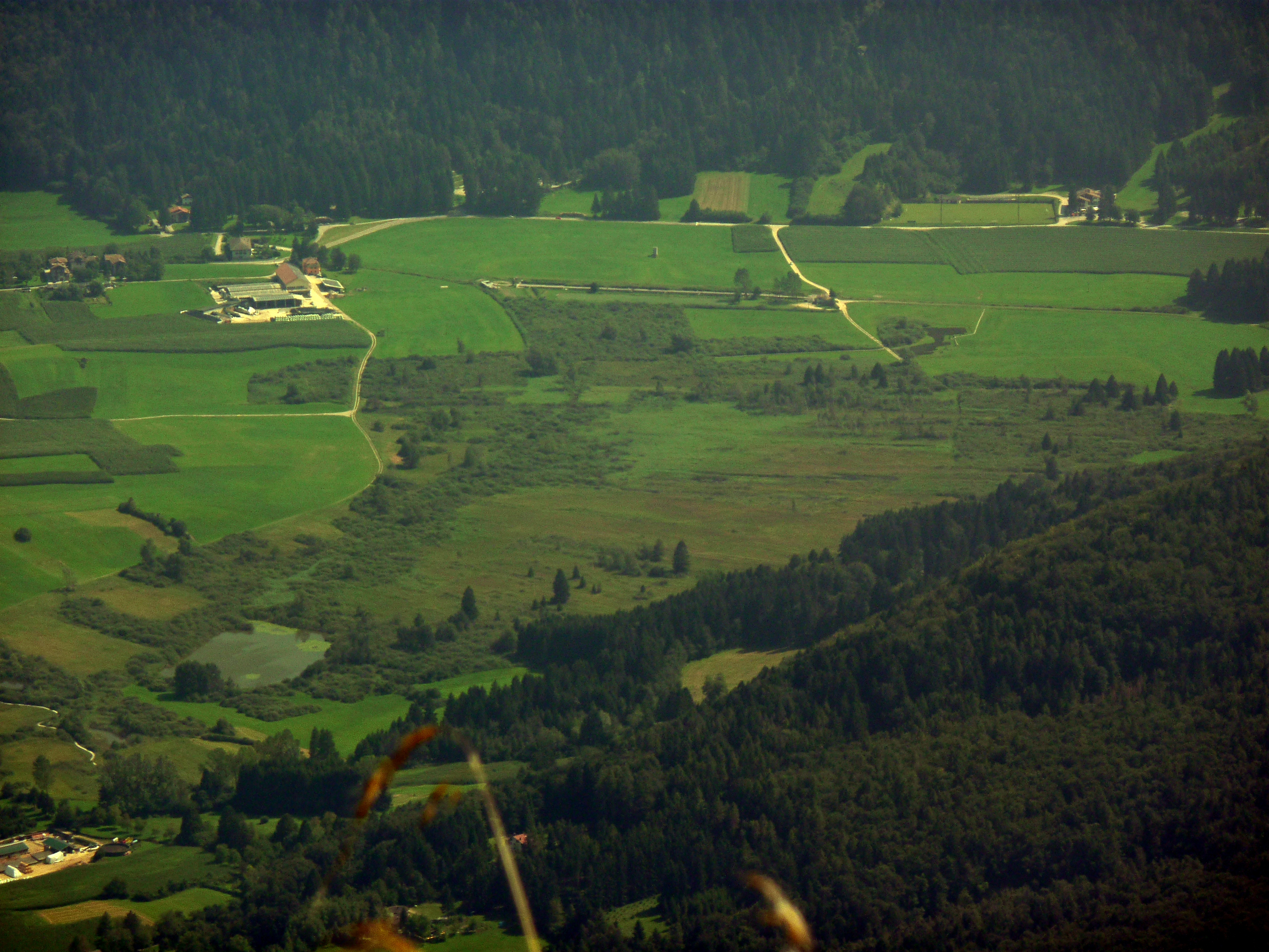 The landscape of Biotope Fiavè viewed by Cima Serra mountain